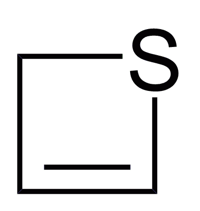 thietene